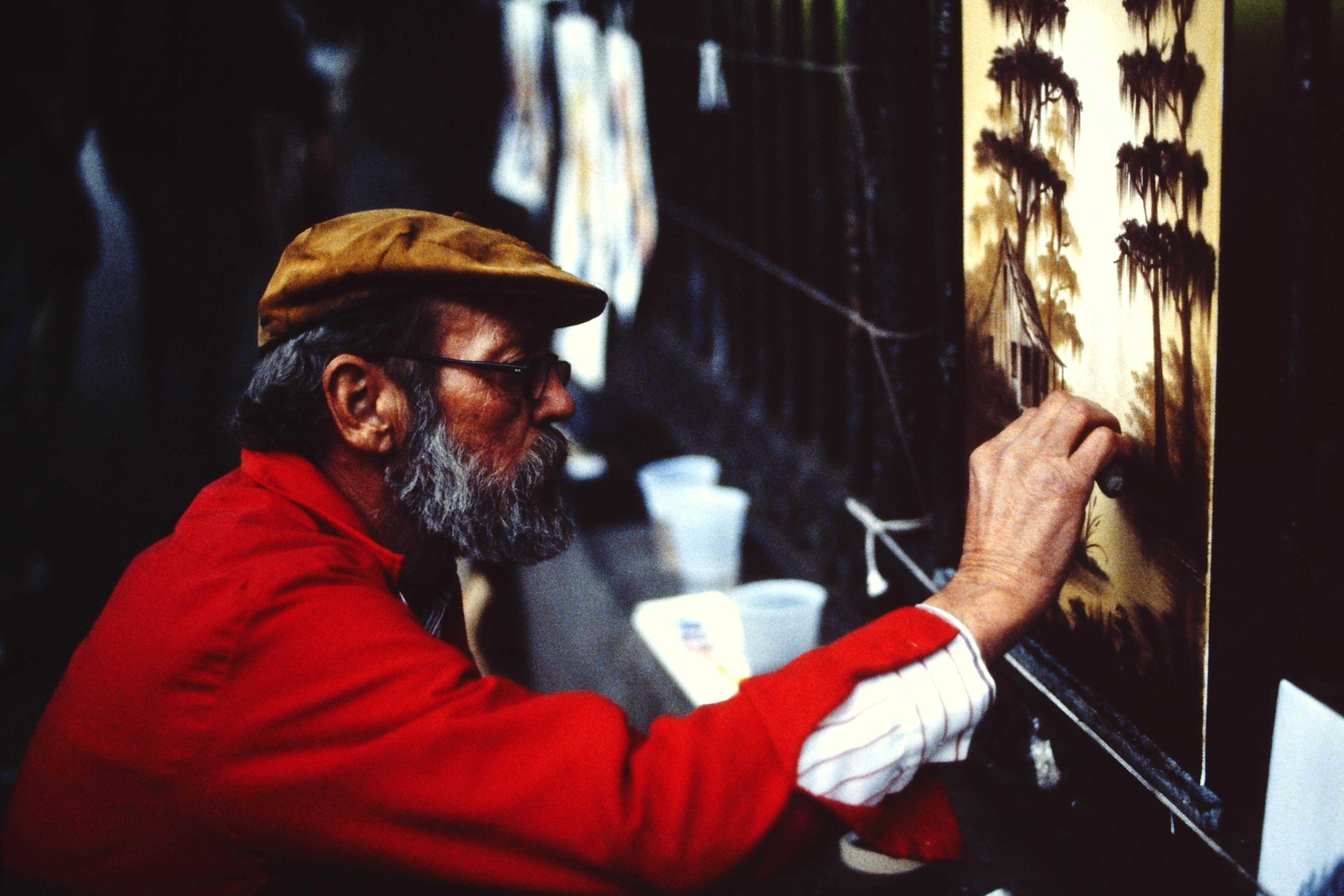 Street artist/painter in the French Quarter of New Orleans during Mardi Gras week, 1988.